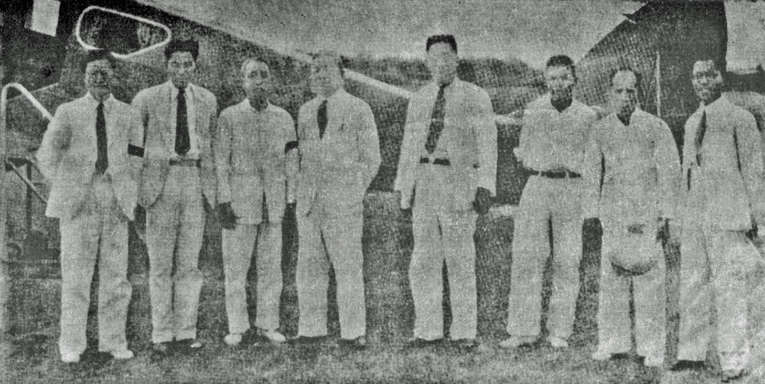 1940 Malayan Comfort Mission - Photo in Tan Kah Kee Museum and Mausoleum, Xiamen, China (Seok Kim, front row, 3rd from left; Tan Kah Kee, 4th); Book: No Other Way Out - A Biography of Ong Seok Kim. PJ, Malaysia; Authors: Wang Jianshi, Ong Eng-Joo; Publisher: Strategic Information and Research Development Centre, 2013; Site